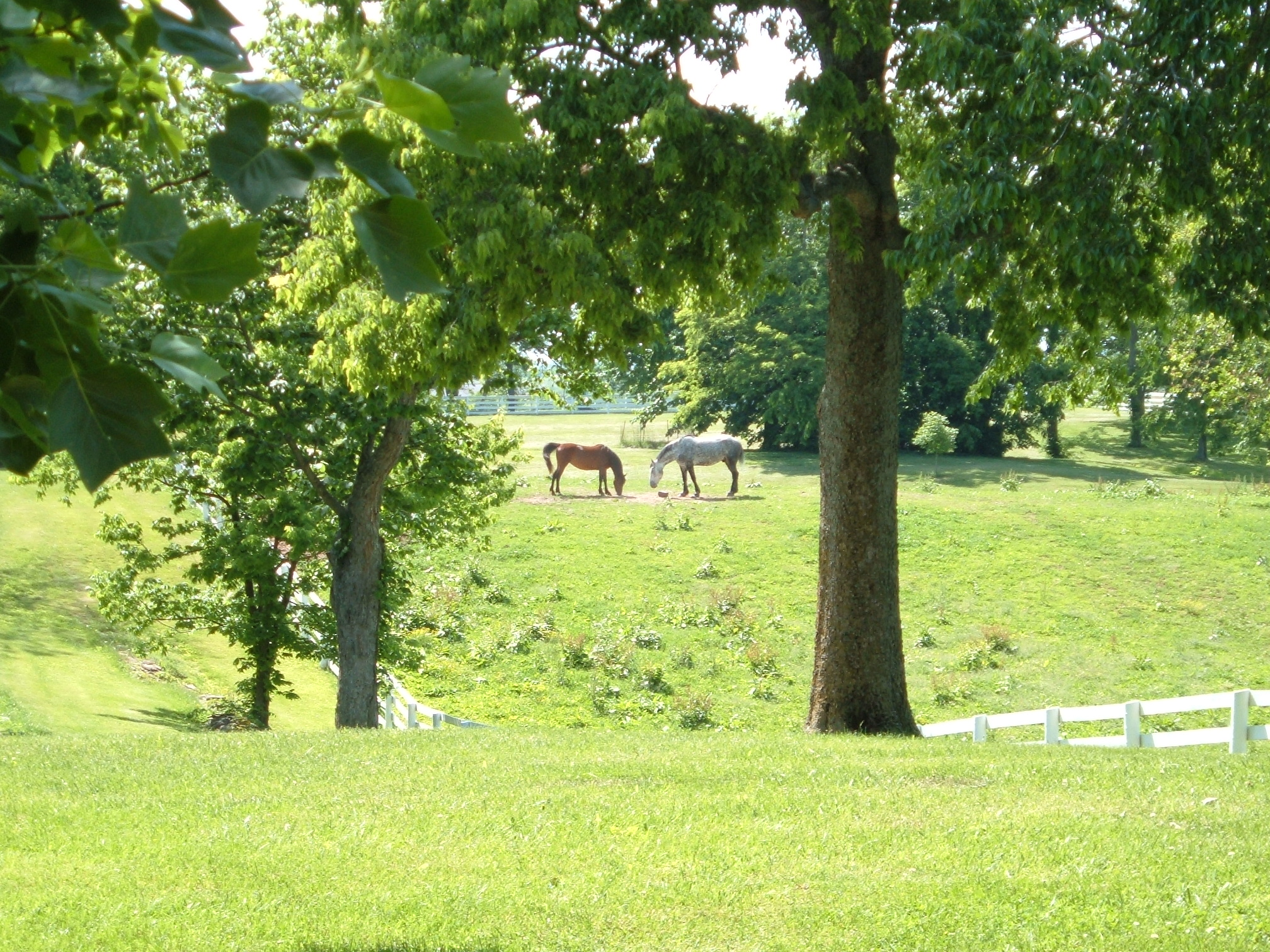 Photograph of horses grazing; taken by me at Shaker Village at Pleasant Hill, Kentucky, USA